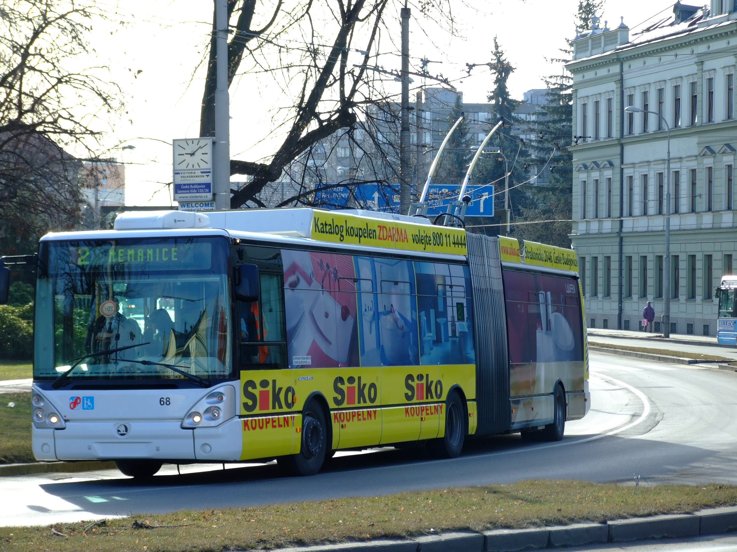 Trolleybus in České Budějovice, Lidická street, near city centerhelp